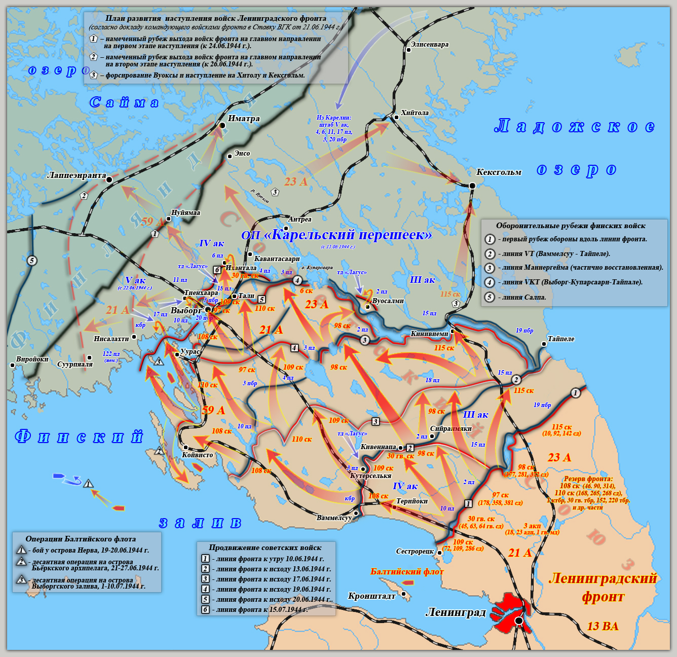 Leningrad front offensive on the Karelian Isthmus, June - July 1944